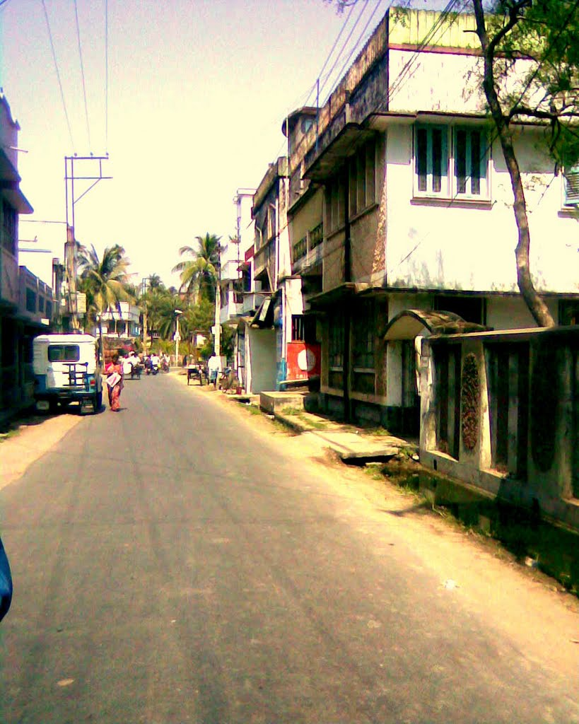 This is SH2 from Basirhat station to market area